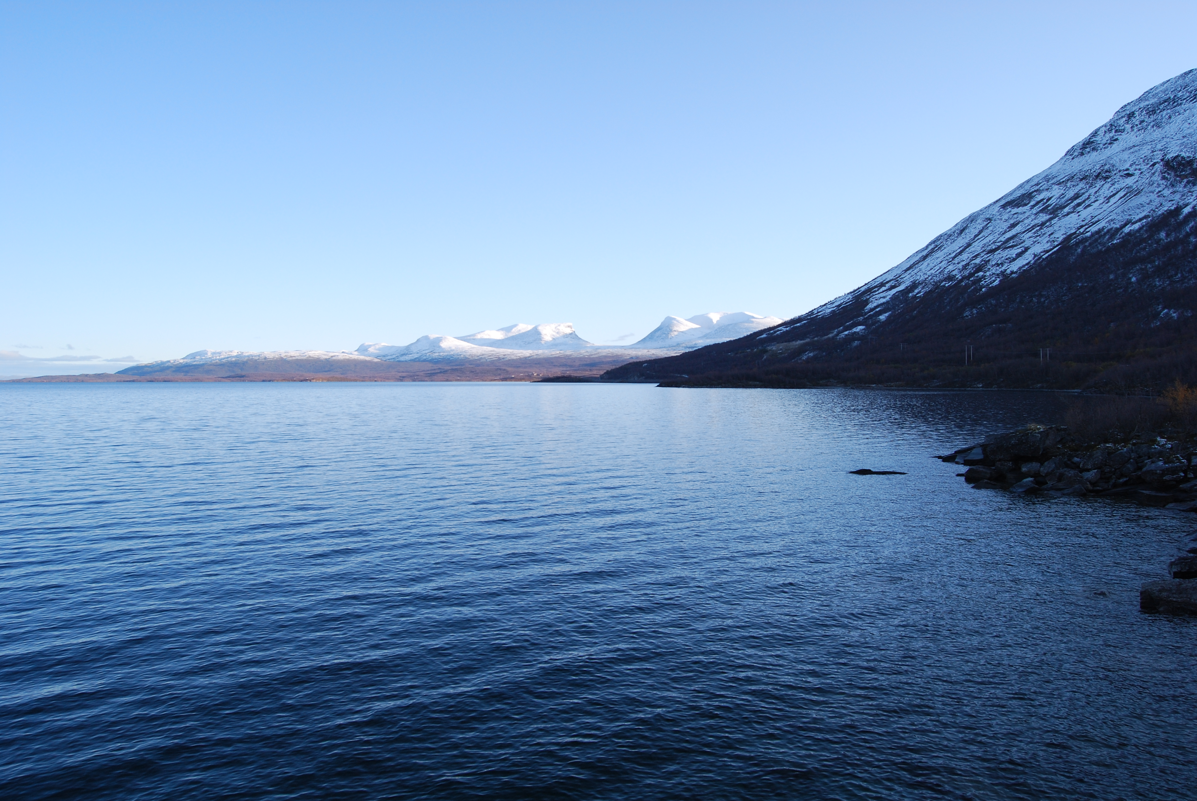 I have pic Lapporten mountains with a Nikon D60. The lake is called Torneträsk.